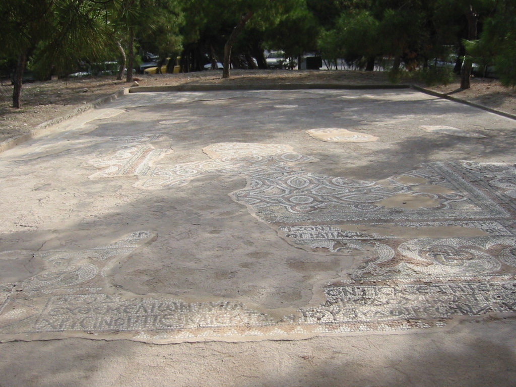 Romaniote synagogue of Aegina. Mosaic Floor of a Jewish Synagogue in Greece - 300 CE, Aegina. The mosaic decorated the floor of the Jewish synagogue of Aegina. Discovered in 1829 to the East of the "secret harbour" in the midst of an important quarter of the ancient city, the building has been excavated only in parts because of its modern superstructures. During the investigations remains of an older predecessor have been identified (hatched walls). Through the entrance in the West and an antechamber people reached the main hall which measured 13.50 to 7.60 m. To the East - oriented towards the city of Jerusalem - a raised apsis was annexed in which the shrine for the Torah was stored. Between apsis and main hall stood the reading-dest (white recess in the eastern mosaic-frame). For the purpose of preservation the mosaic has been removed from its original context to the actual position. It displays the typical decoration-patterns of mosaic-floors of the 4th century CE consisting of artistic geometrical designs in a rich scale of colours. At the west side near the entrance two donation inscriptions are visible. They refer to the erection of the synagogue using revenues of the community and donations of its members when Theodoros was head of the synagogue for four years. The completion of the synagogue and the bedding of the mosaic took place when his homonymous son held the same position. The Jewish community of Aegina has been established probably when Jews and other refugees resorted to the island in the course of the Barbarian invasions into Greece at the end of the second and during the third century CE. The abandonment of the synagogue is testified by several Christian graves in the foundation walls of the building. The mosaic has been created between 300 and 350 CE. The image created at the Archaeological Museum of Aigina on October 23, 2005 by Max Khazanovich, MBA